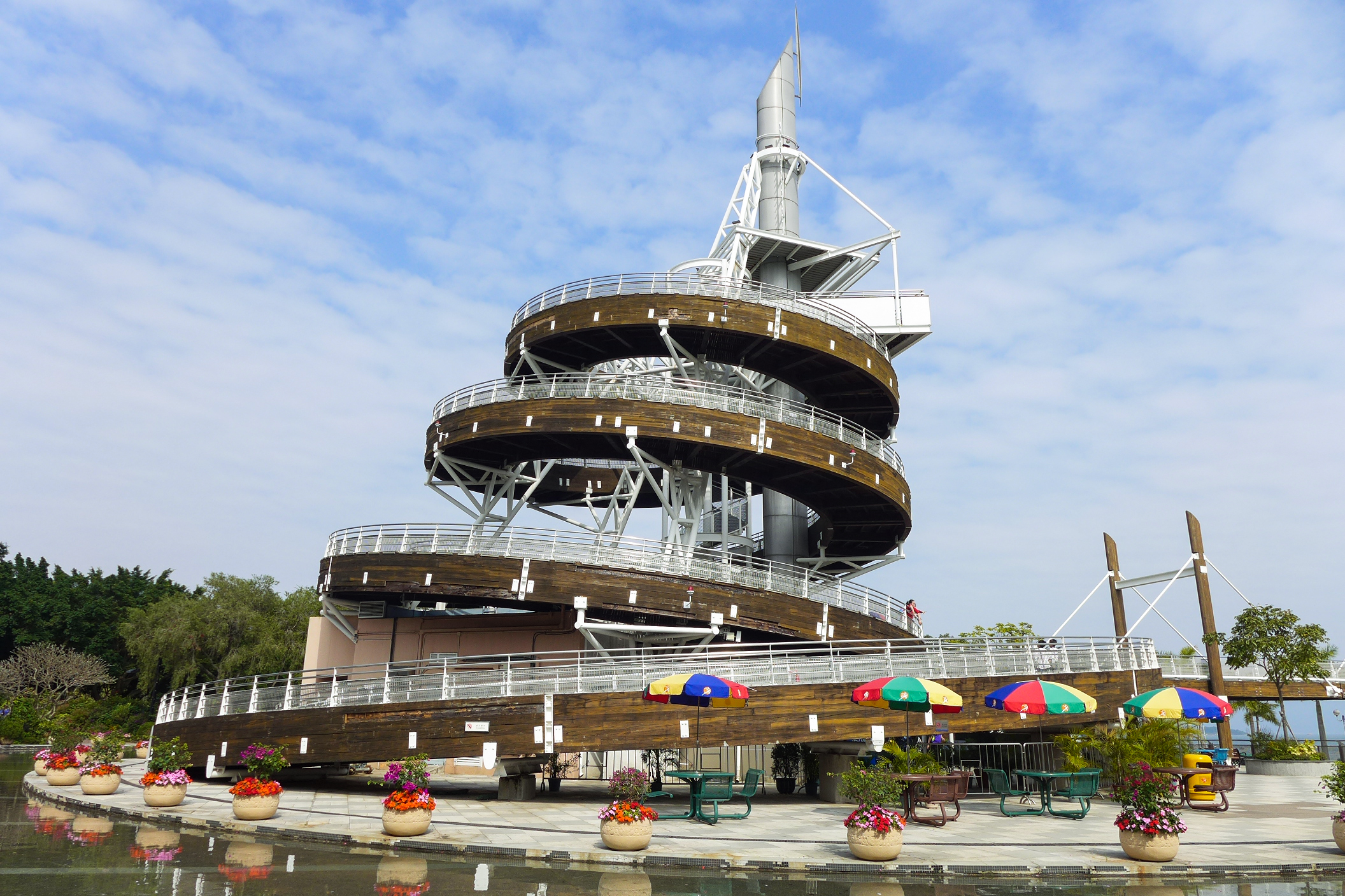 Tai Po Waterfront Park Spiral lookout tower